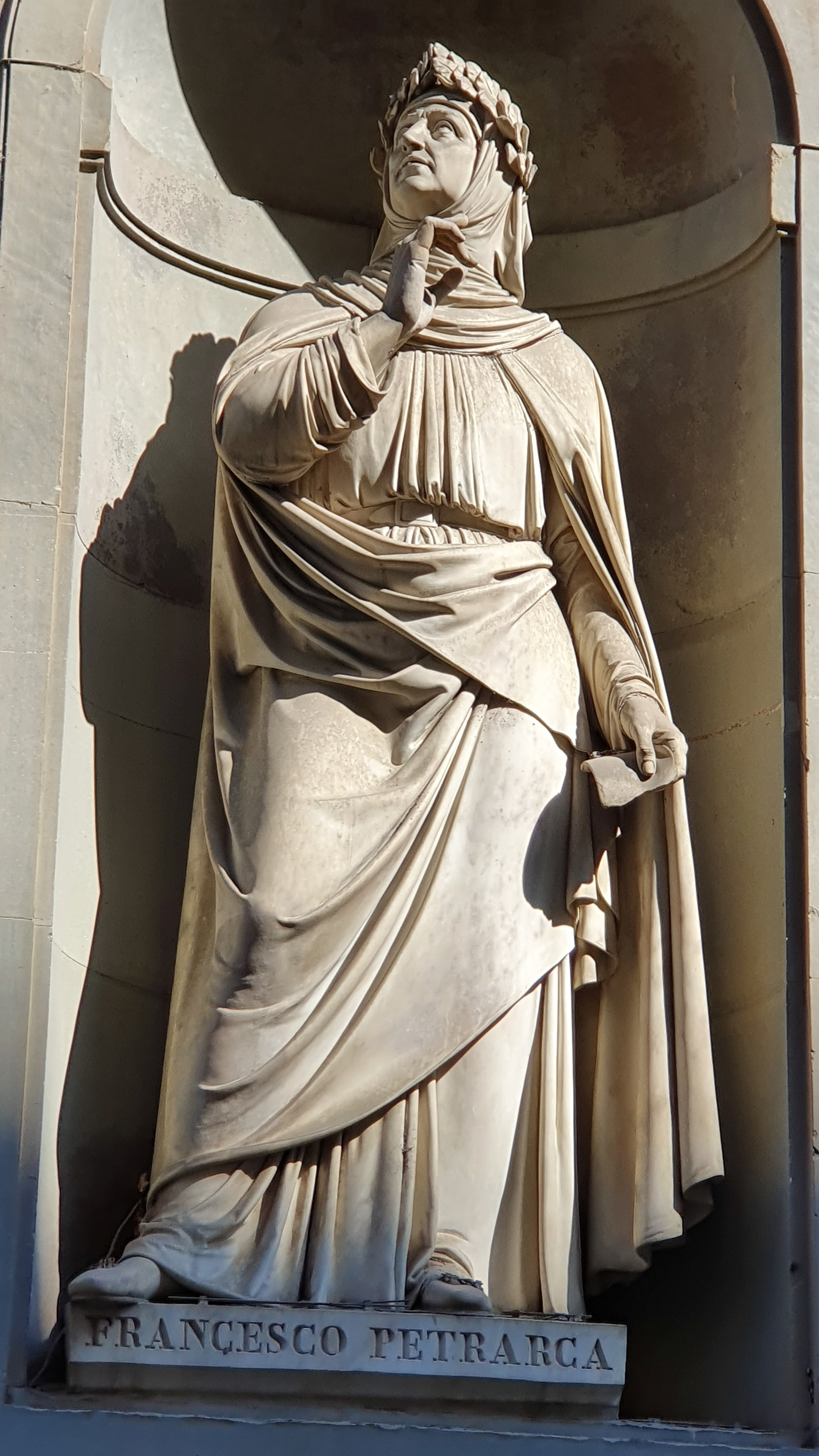 Statue of Francesco Petrarca (Uffizi Gallery)